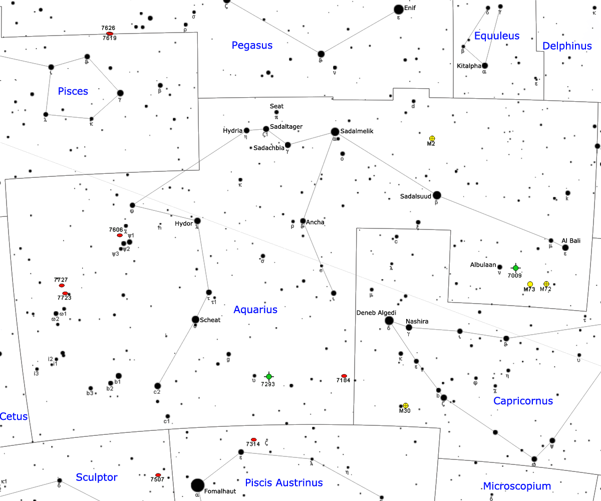 Map of Aquarius